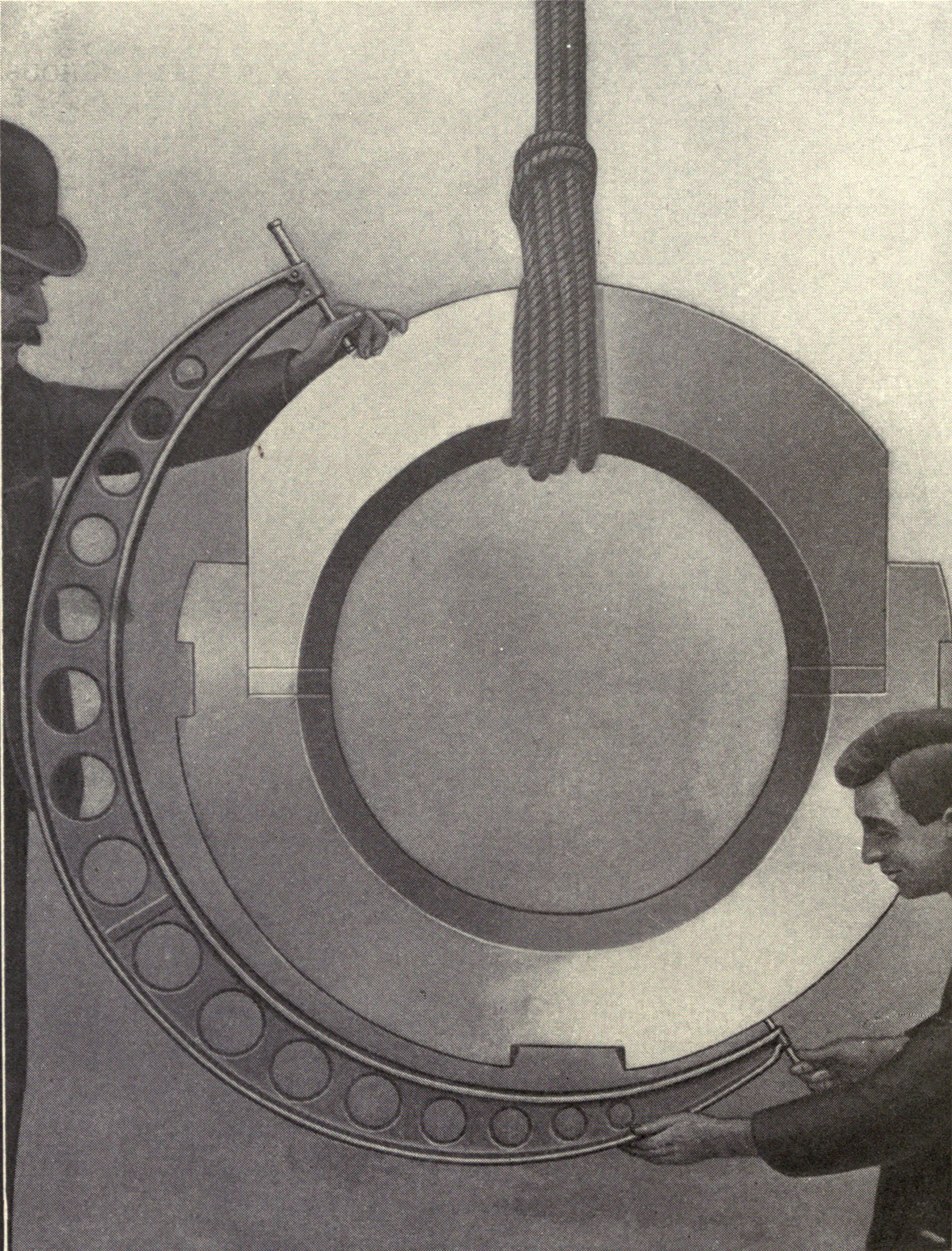 Quoted from source book, Woodworth 1908 p203 - Large Micrometer Calipers At The British Westinghouse Works - We are pleased to place before our readers a partial description of another set of large aluminum zinc calipers, of which one size is shown in Fig. 221, that may in a sense be said to be the descendant of those illustrated in Section I, having been made and being in use in the Manchester Works of the British Westinghouse Electric & Manufacturing Company, Limited.